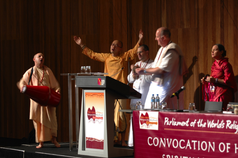 World parlament Religions 2009